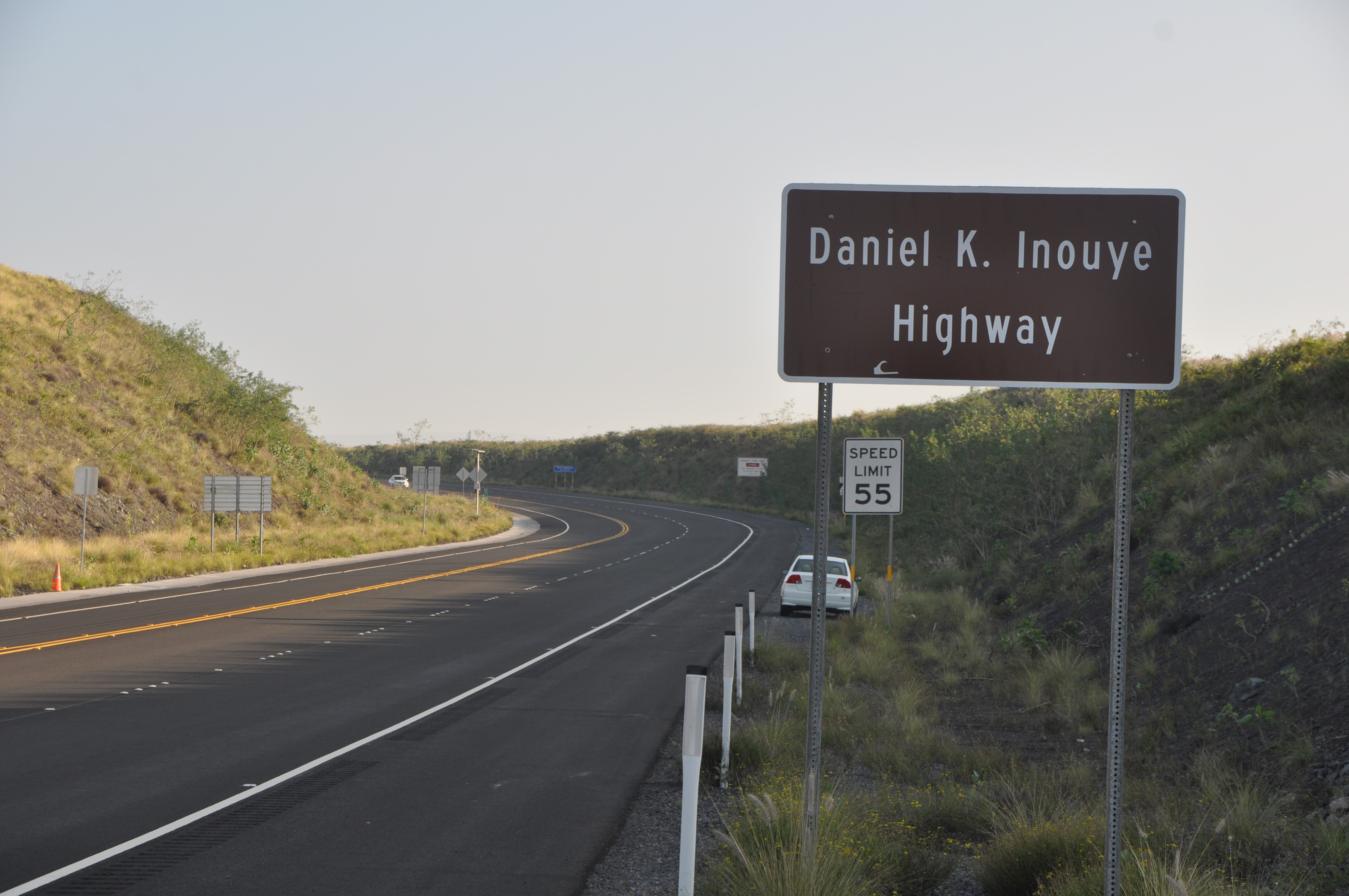 Hawaii Route 200 - Inoue Highway Sign